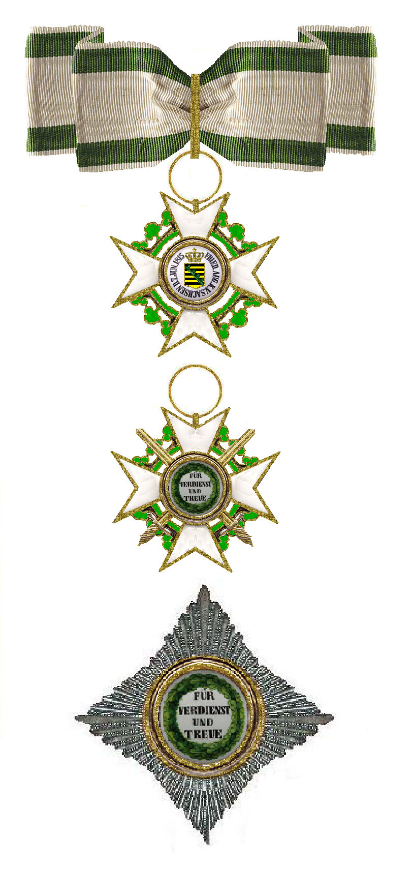 Order of Merit Sachsen